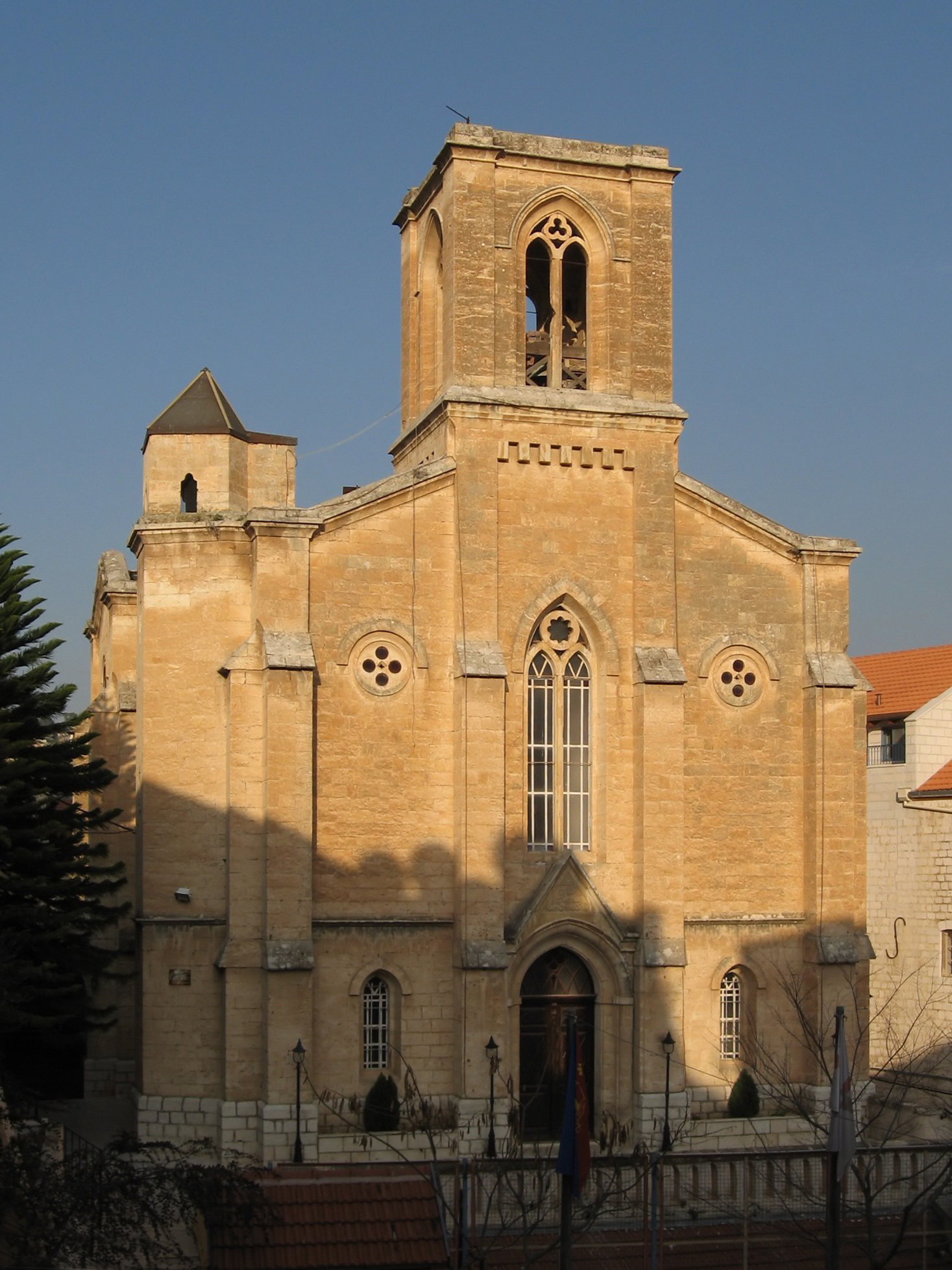 Christ Church in Nazareth, built 1871 with plans from Ferdinand Stadler